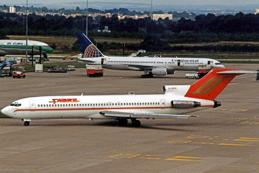 Boeing 727-276 G-BNNI of Sabre Airway at Manchester Airport on 23 July 1995.